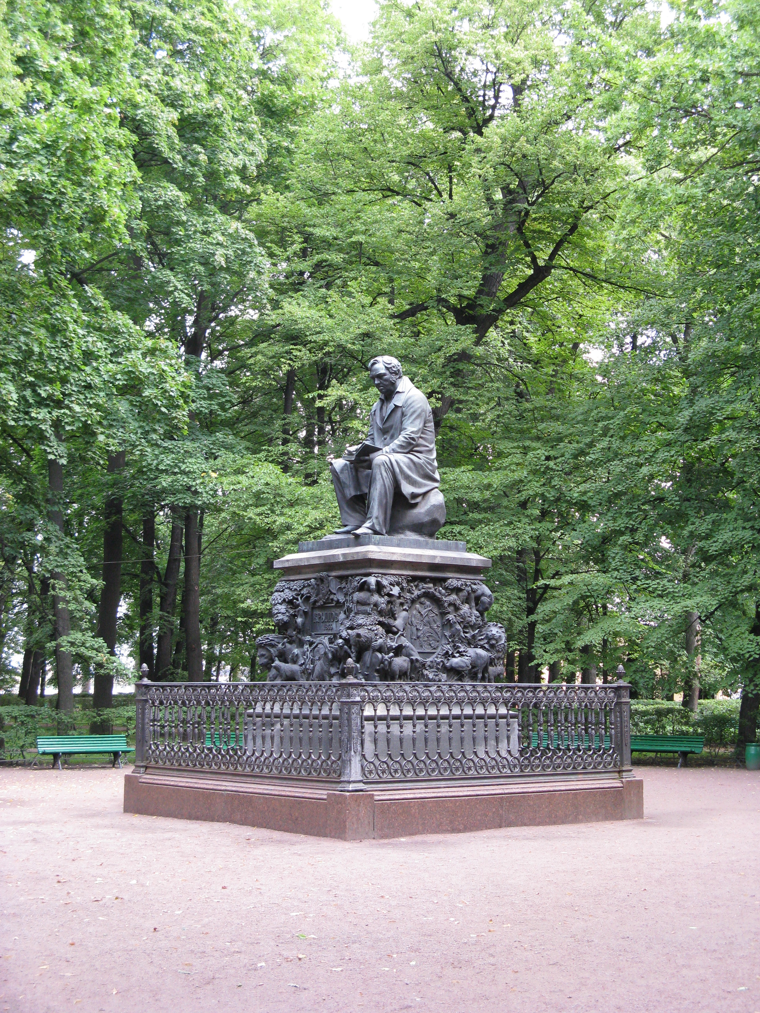 Krylov's monument by Alexander Аgin in the Summer Garden